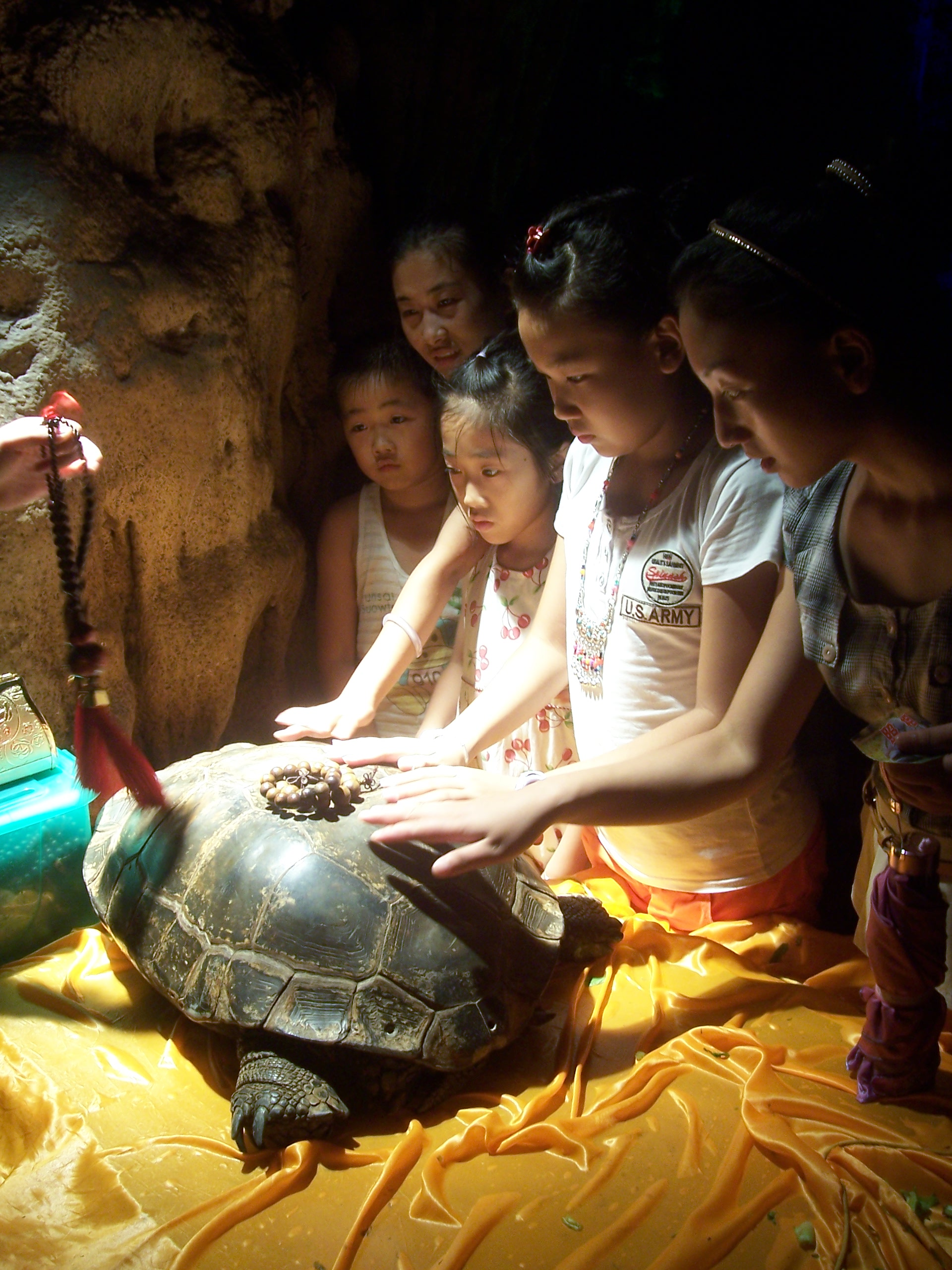 In the grotto of the flute reeds, China, a family shows reverence for an ancient turtle. The turtle is a symbol of longevity throughout many parts of Asia. Its four feet represent the four corners of the earth, its endurance is considered to last 10,000 years. A symbol of good luck and long life, many turtles are pushed towards extinction by consumption in Chinese medicine.